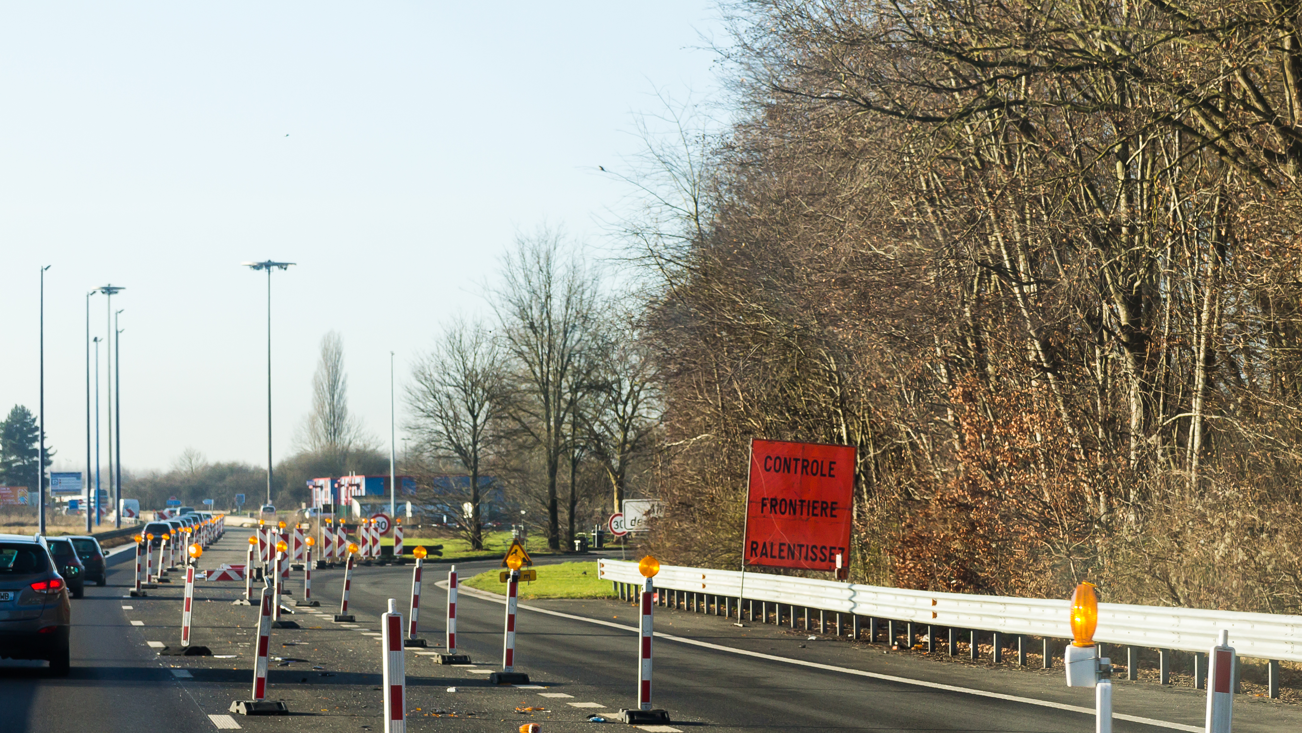 Belgian-French Border Autoroute A7 at Valenciennes. Two lanes are narrowed down to one lane for border control duties by the France police due to the state of emergency in France.